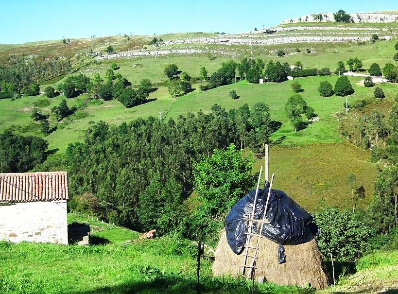 Traditional grass silage in Riotuerto (Cantabria, Spain)